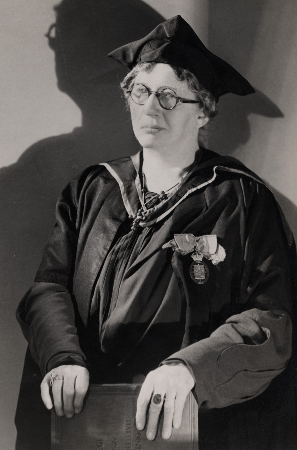 Lilian Baylis, Patron of Sadler's Wells Theatre Photo taken before 1926, than in public domain